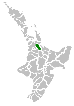 Matamata-Piako Territorial Authority. Matamata-Piako District.